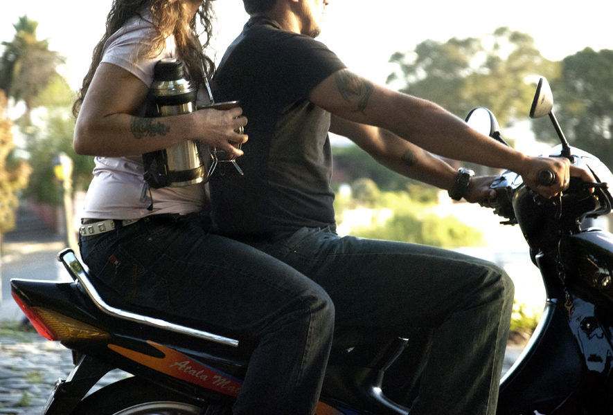 Mate on the fly in Colonia del Sacramento. Photo by Gary Mark Smith.